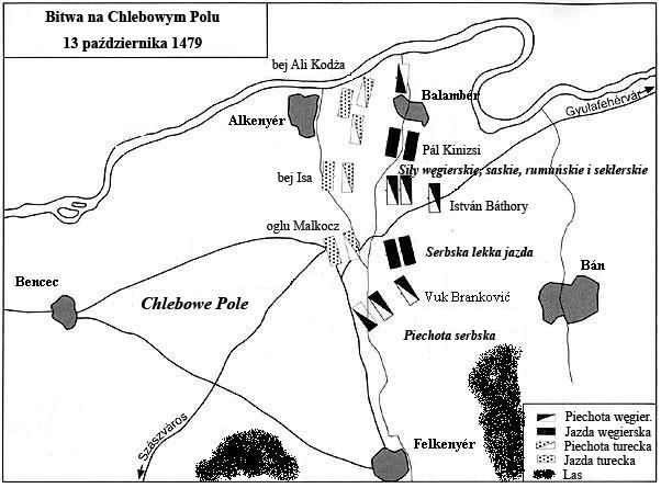 The Polish map of the Battle of Breadfield (Kenyérmező), October 13 1479.